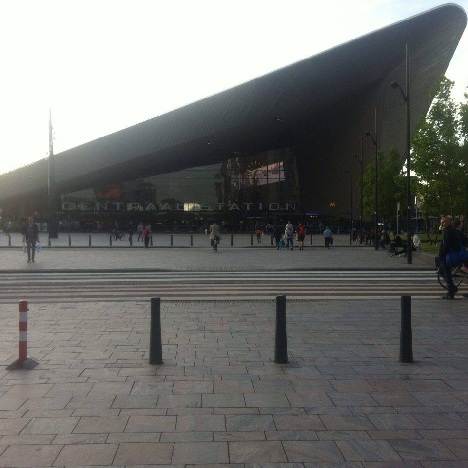 Rotterdam Central